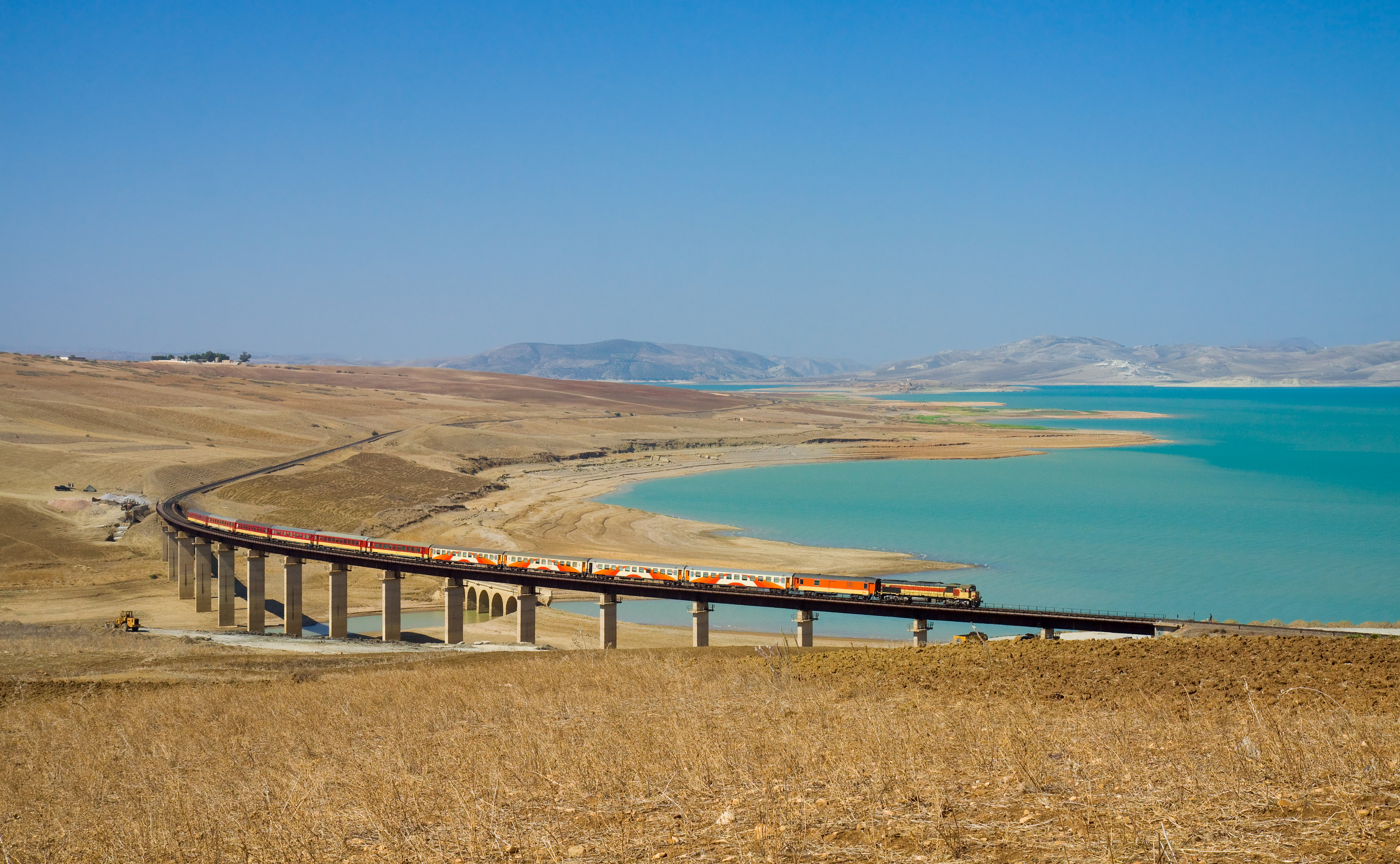 An ONCF DH 370 (EMD GT26CW-2) with the daytime train from Casablanca to Oujda, between Et-Touabaâ and Matmata. An electric locomotive brought the train to Fes, where it was swapped for the DH 370. The lake in the background is the Barrage ("dam") Idriss 1er.